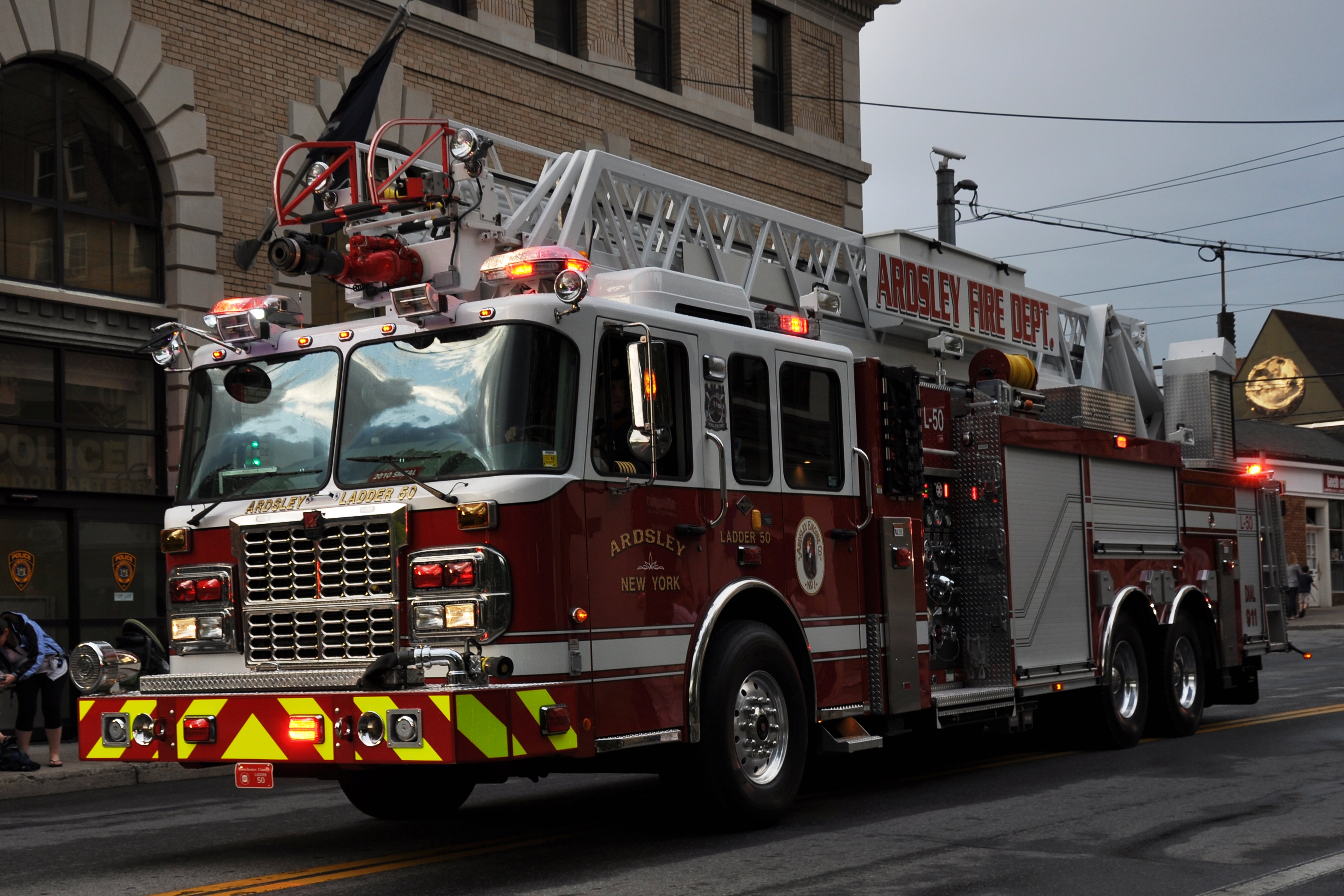 Ardsley NY fire vehicle. I took this at the Pleasantville Firefighters' Parade on May 30, 2014.